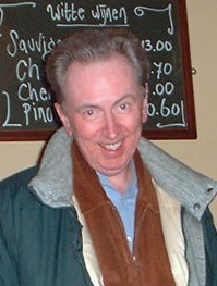 Al Stewart